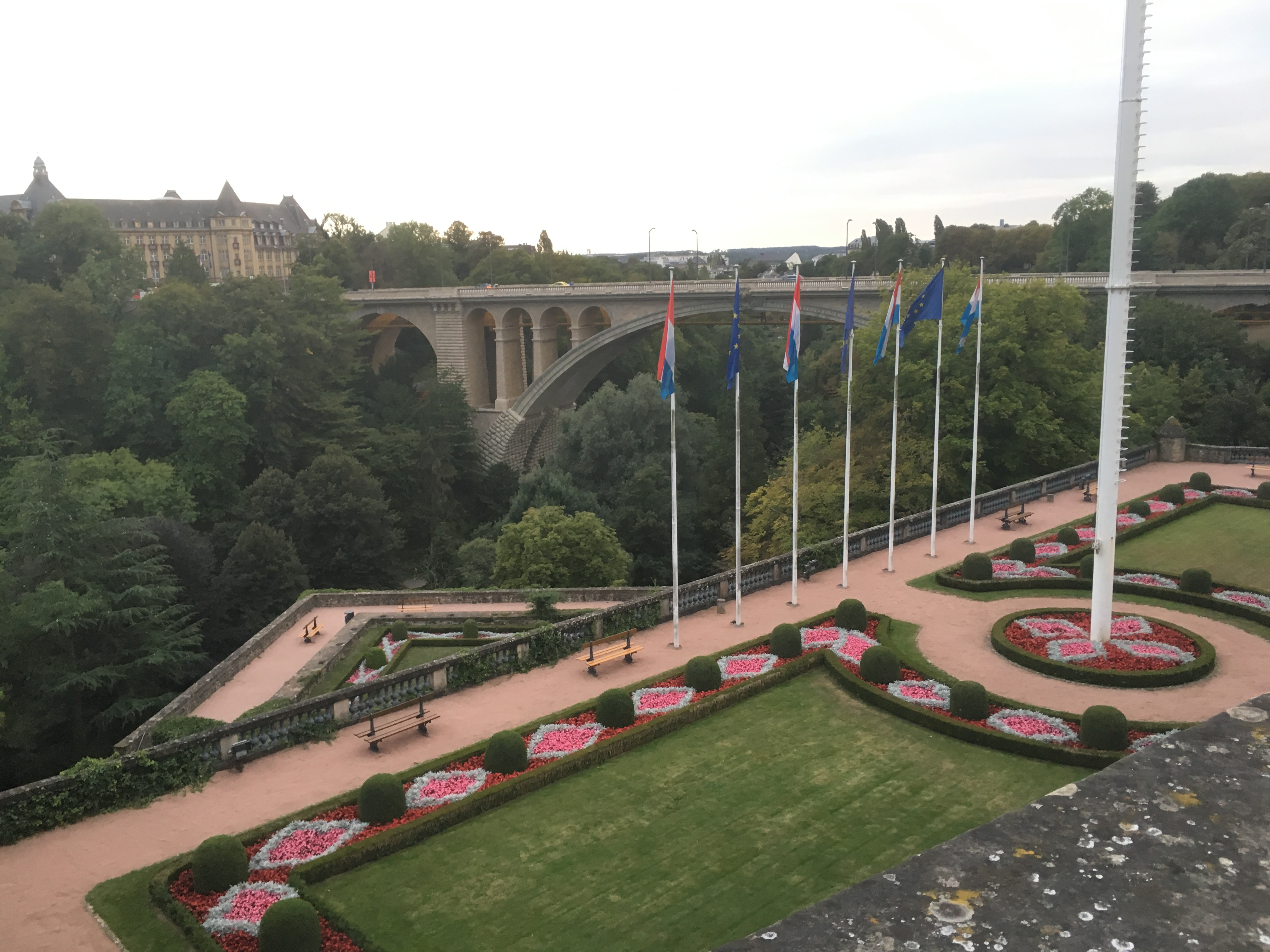 Place de la Constitution